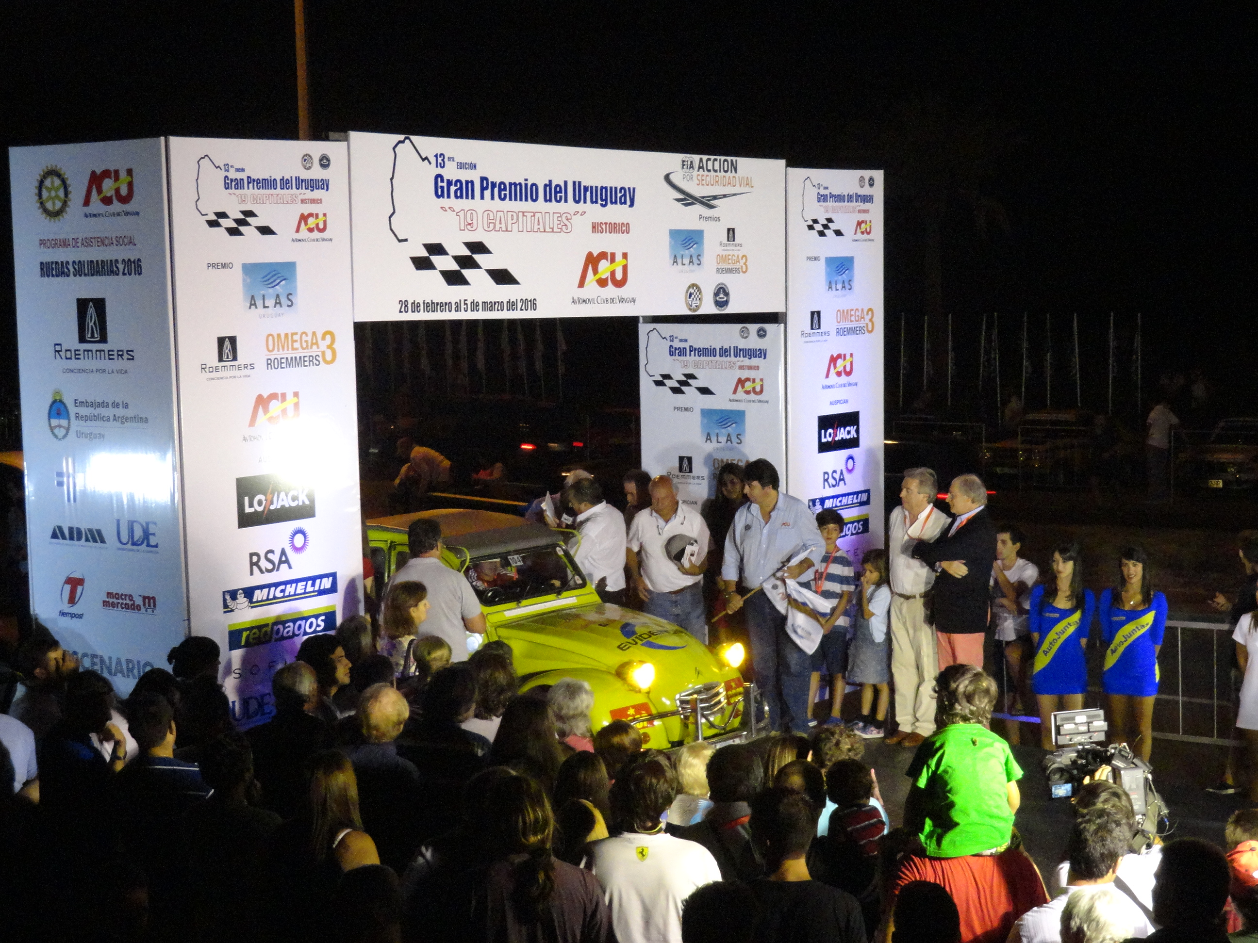 Official departure of the 2016 Gran Premio del Uruguay 19 Capitales Histórico at the Hotel Sofitel Carrasco in Montevideo